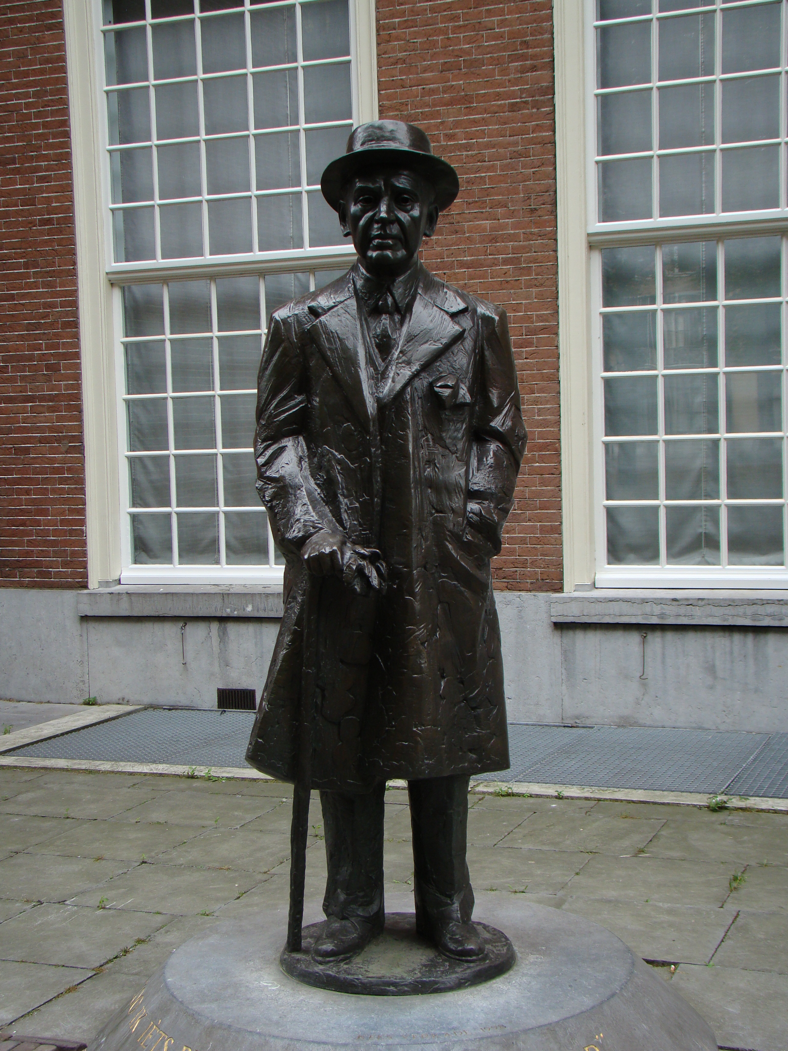 Statue of Louis Couperus by Kees Verkade in The Hague (Netherlands)